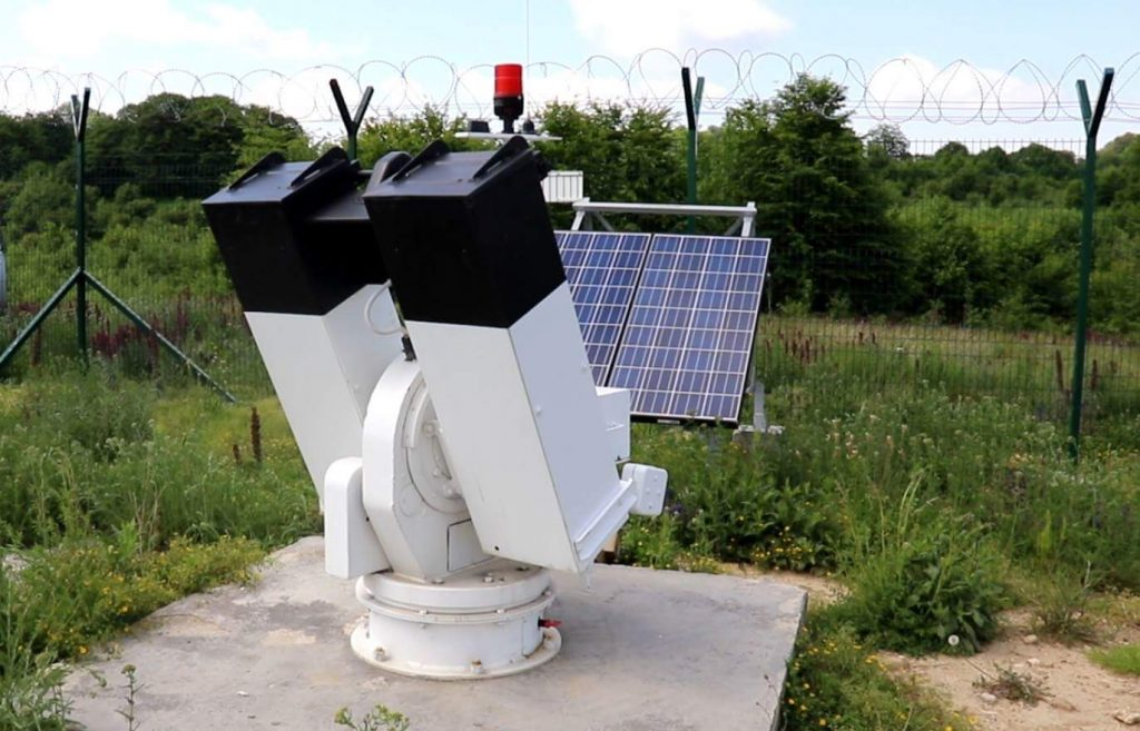 sd 26 anti hail rocket system - georgia